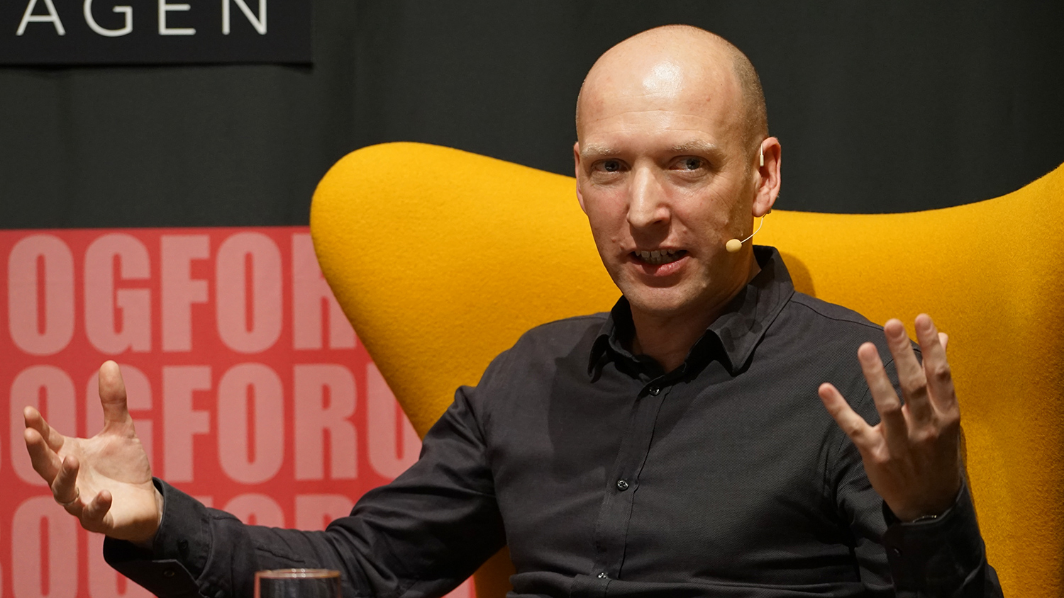 Ole Tornbjerg - Danish writer and journalist at the Copenhagen Book Fair "BogForum 2015", Copenhagen, Denmark